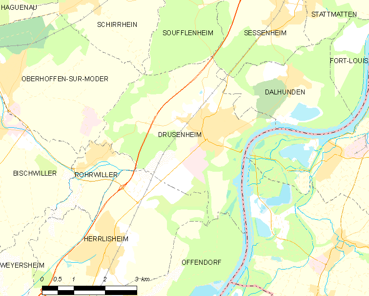 Map of French municipality